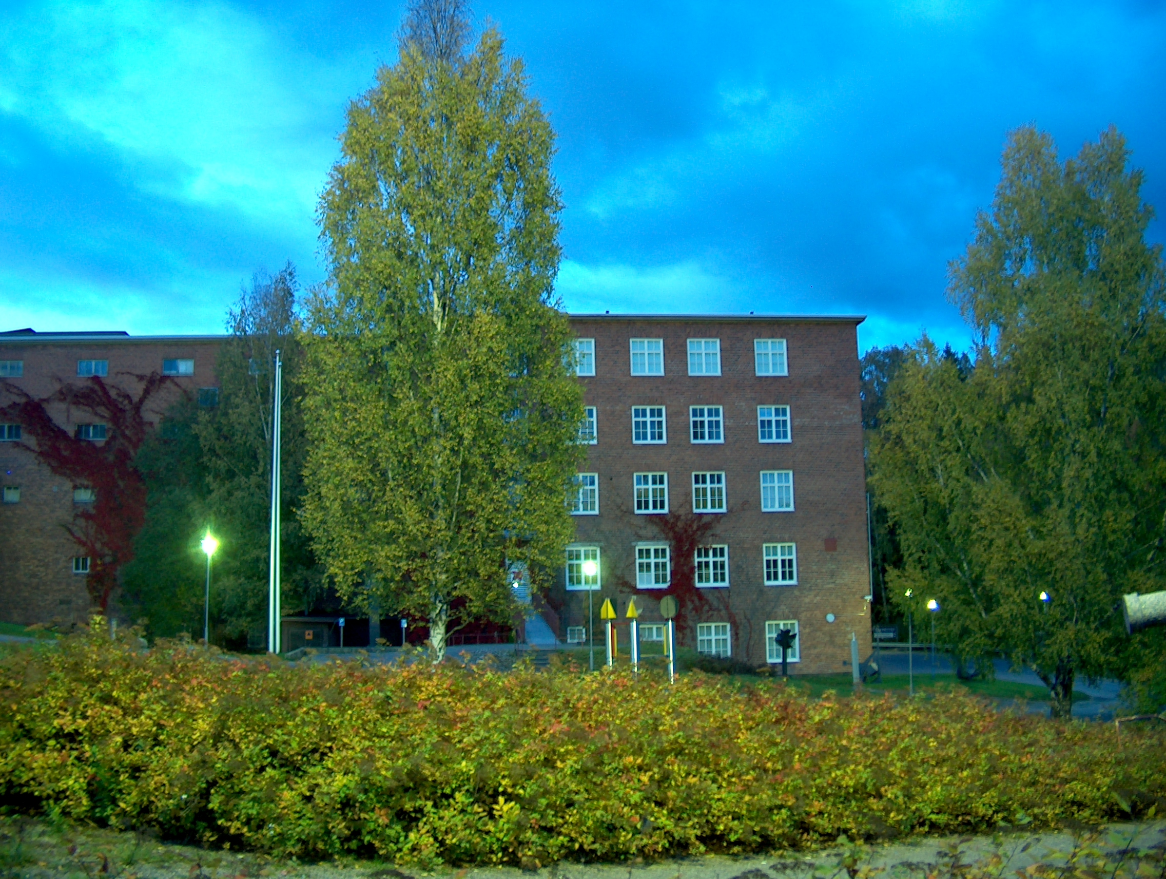 The Art Museum of Kerava, Finland was situated in this building 7.12.1990-15.1.2012. The building is a former rubber factory, now called Klondyke, address Kumitehtaankatu 5.